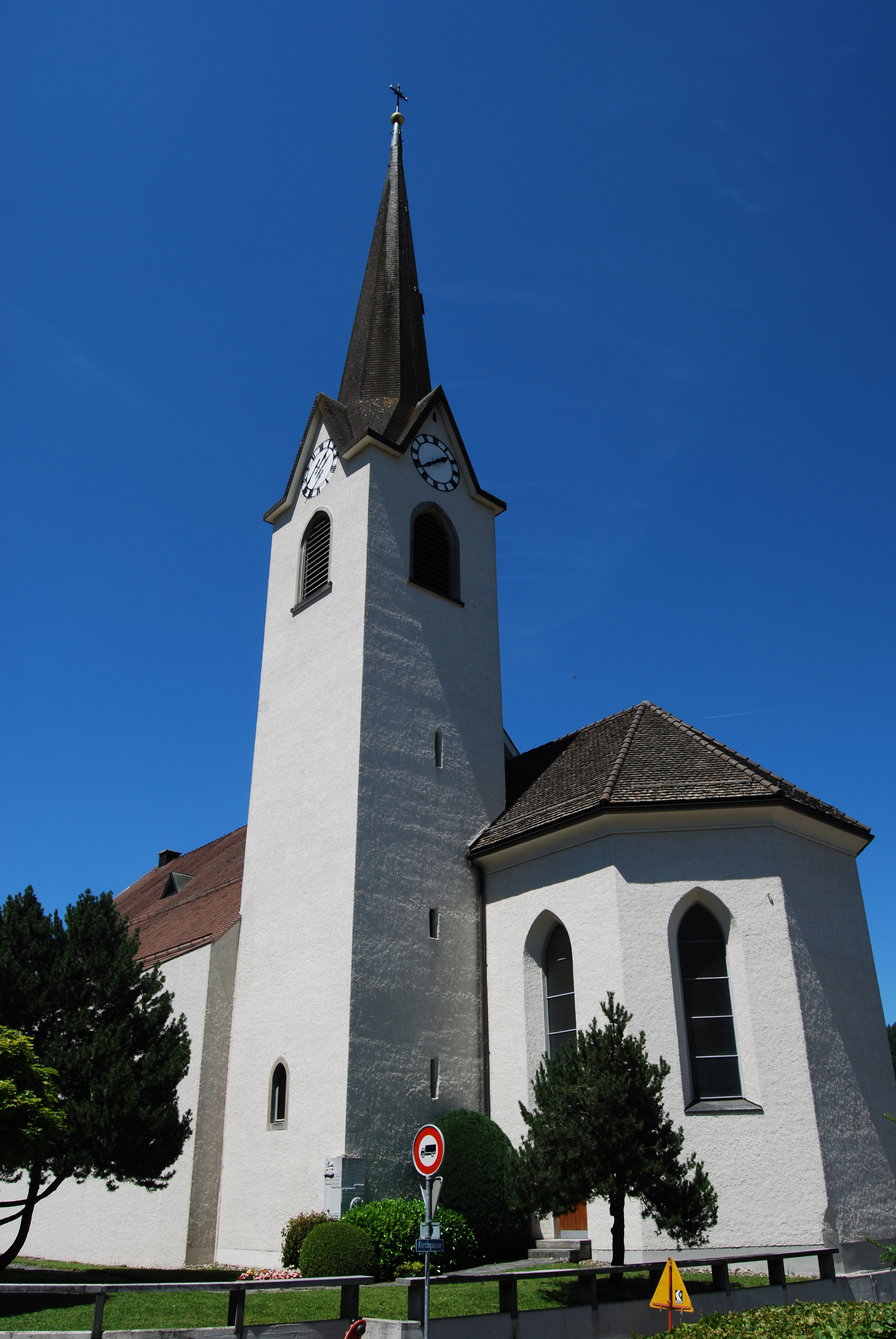 Church of Bichelsee, municipality Bichelsee-Balterswil, canton of Thurgovia, Switzerland